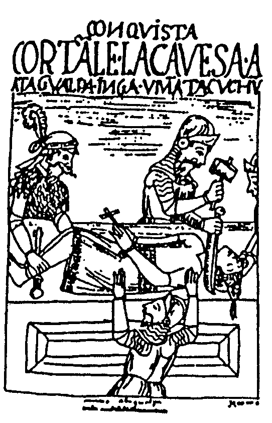 Spaniards executing Atawallpa in 1533